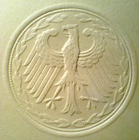 Great Seal of the Federal Republic of Germany